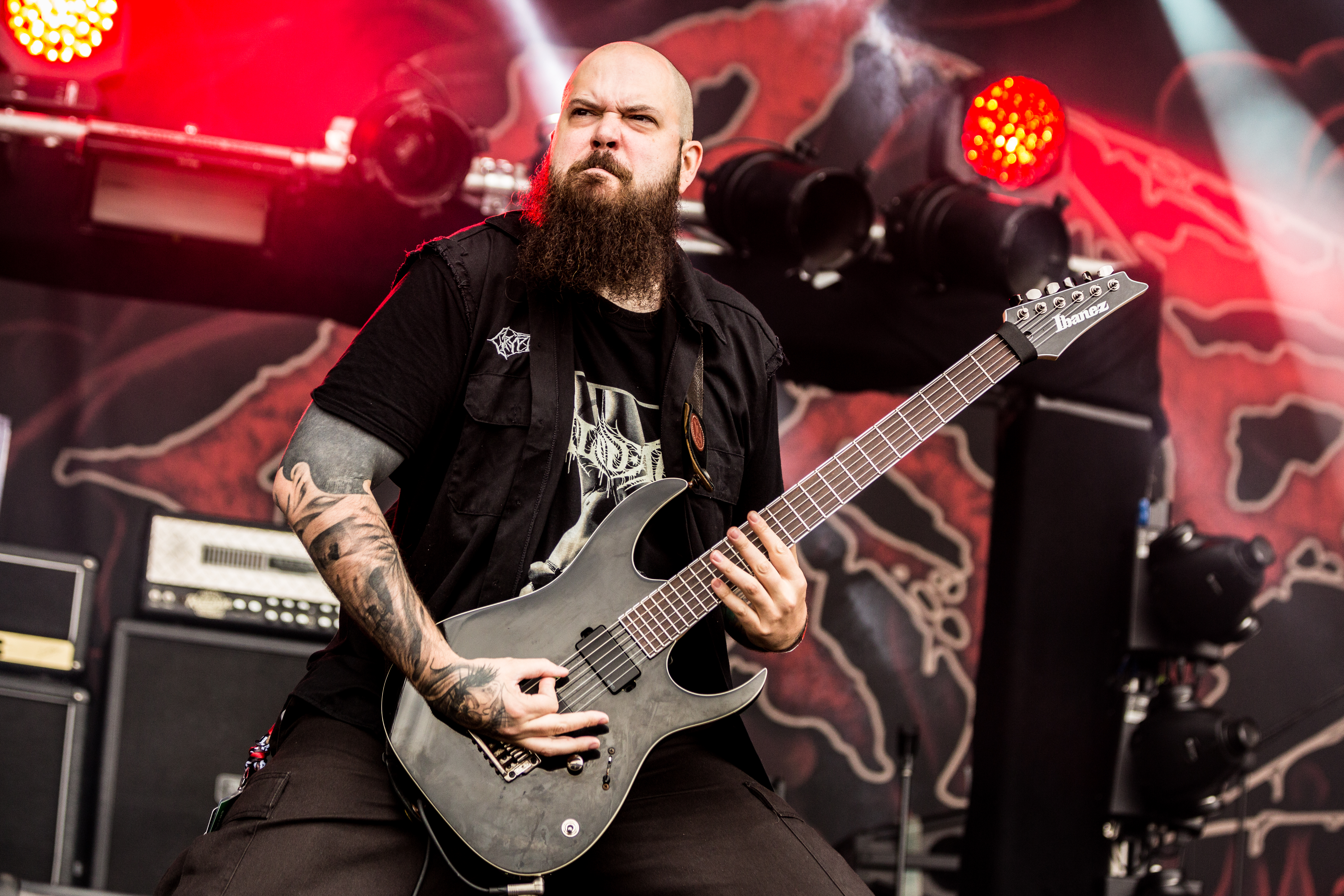 The Canadian technical death metal band Cryptopsy at the Party.San Metal Open Air 2017 in Obermehler-Schlotheim/Germany.